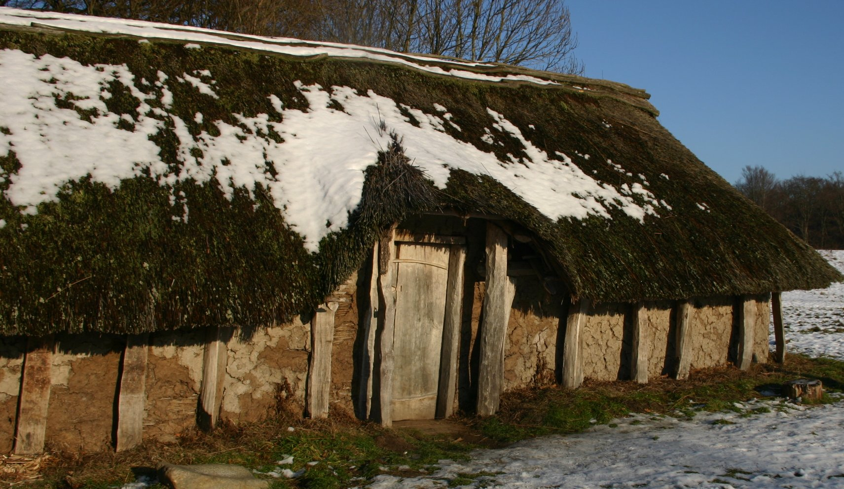 Iron age house ca. 400 AD. Reconstruction at Moesgaard Museum near Aarhus, Denmark.